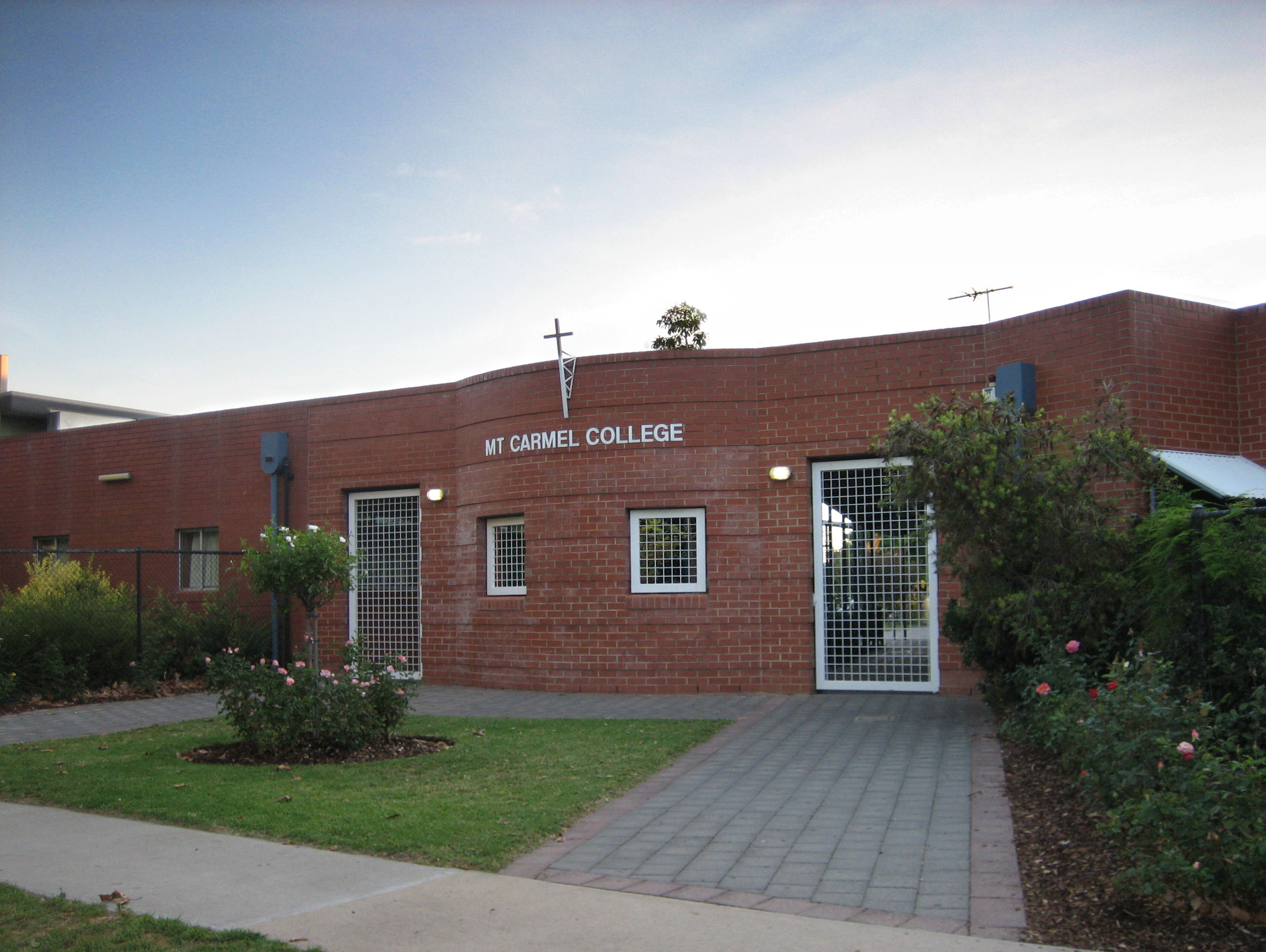 Mount Carmel College - a high school for years 8-12 at Rosewater in South Australia.